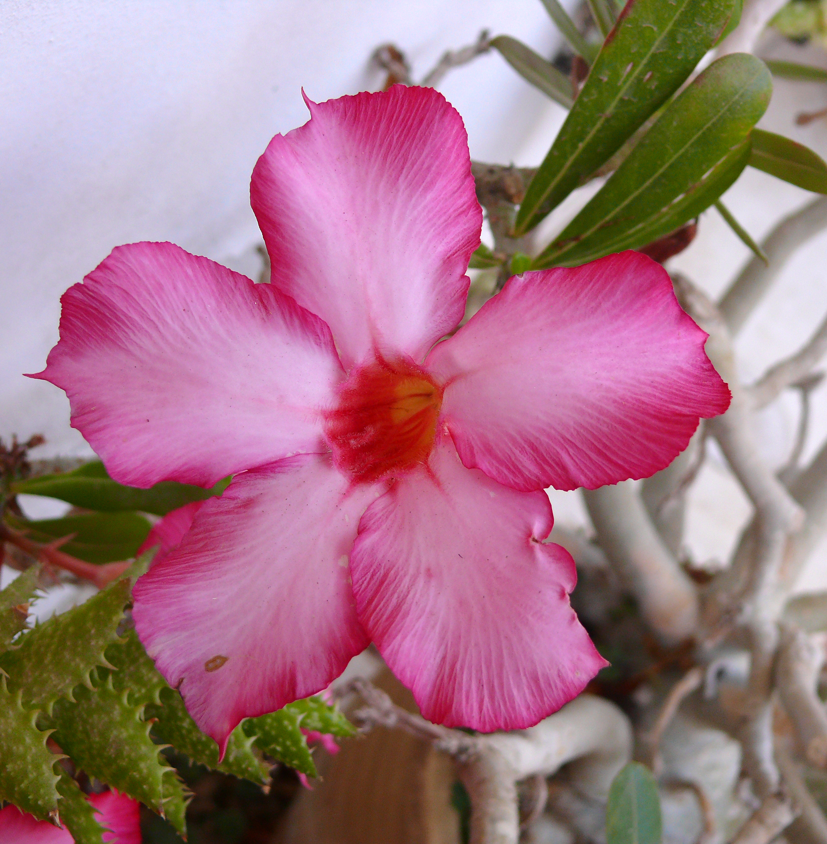 Adenium obesum